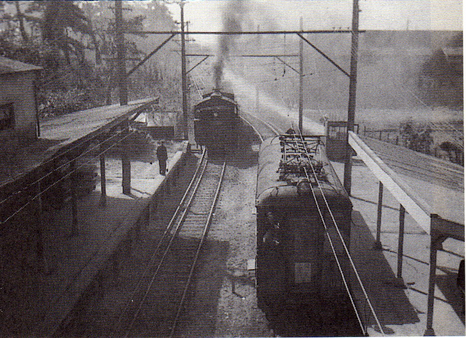 Hanshin Railway Mukogawa Station in the mid- 1950's. Left side track is dual gauge.